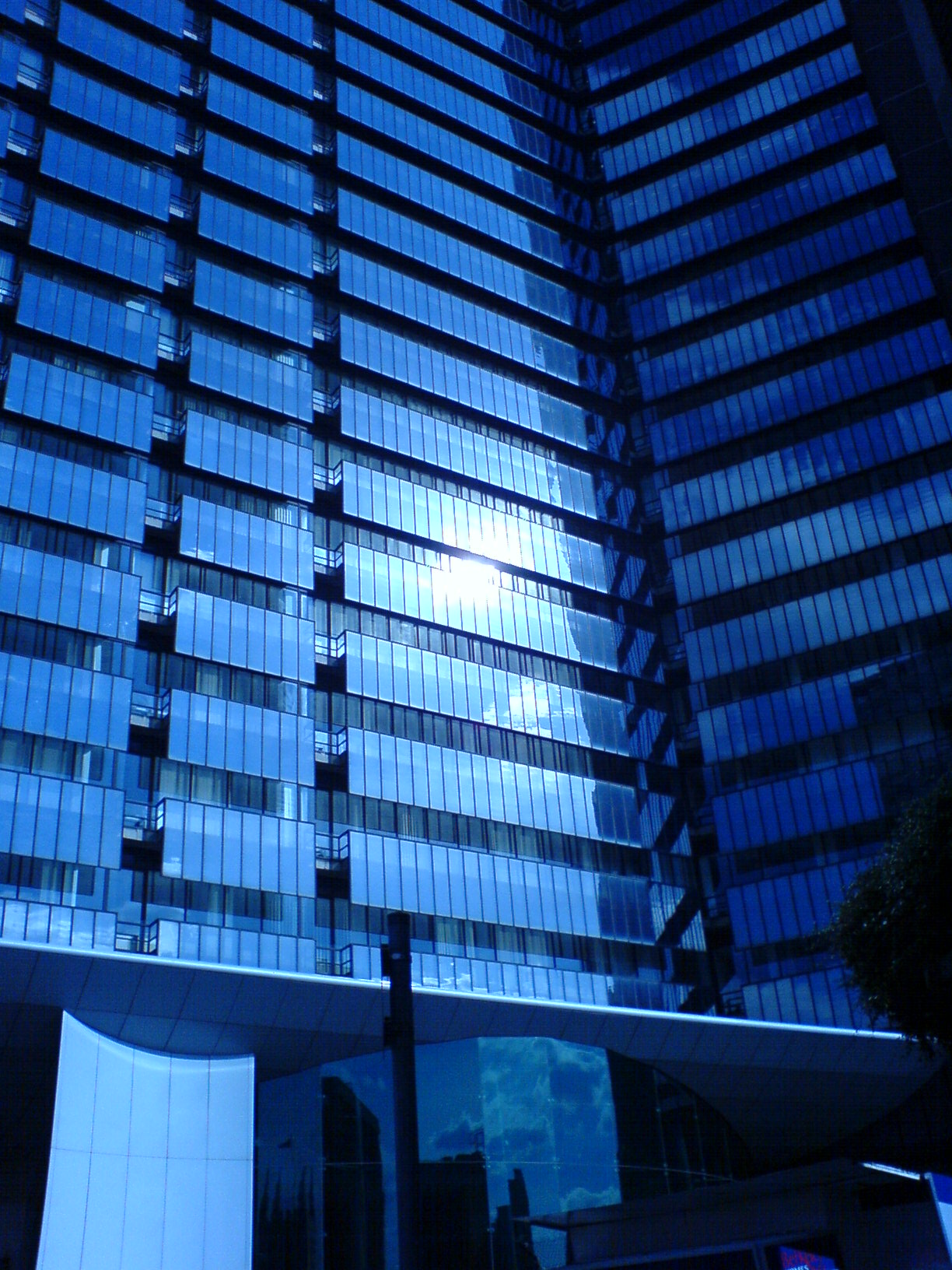 The PricewaterhouseCoopers office in Southwark Towers, London, England.